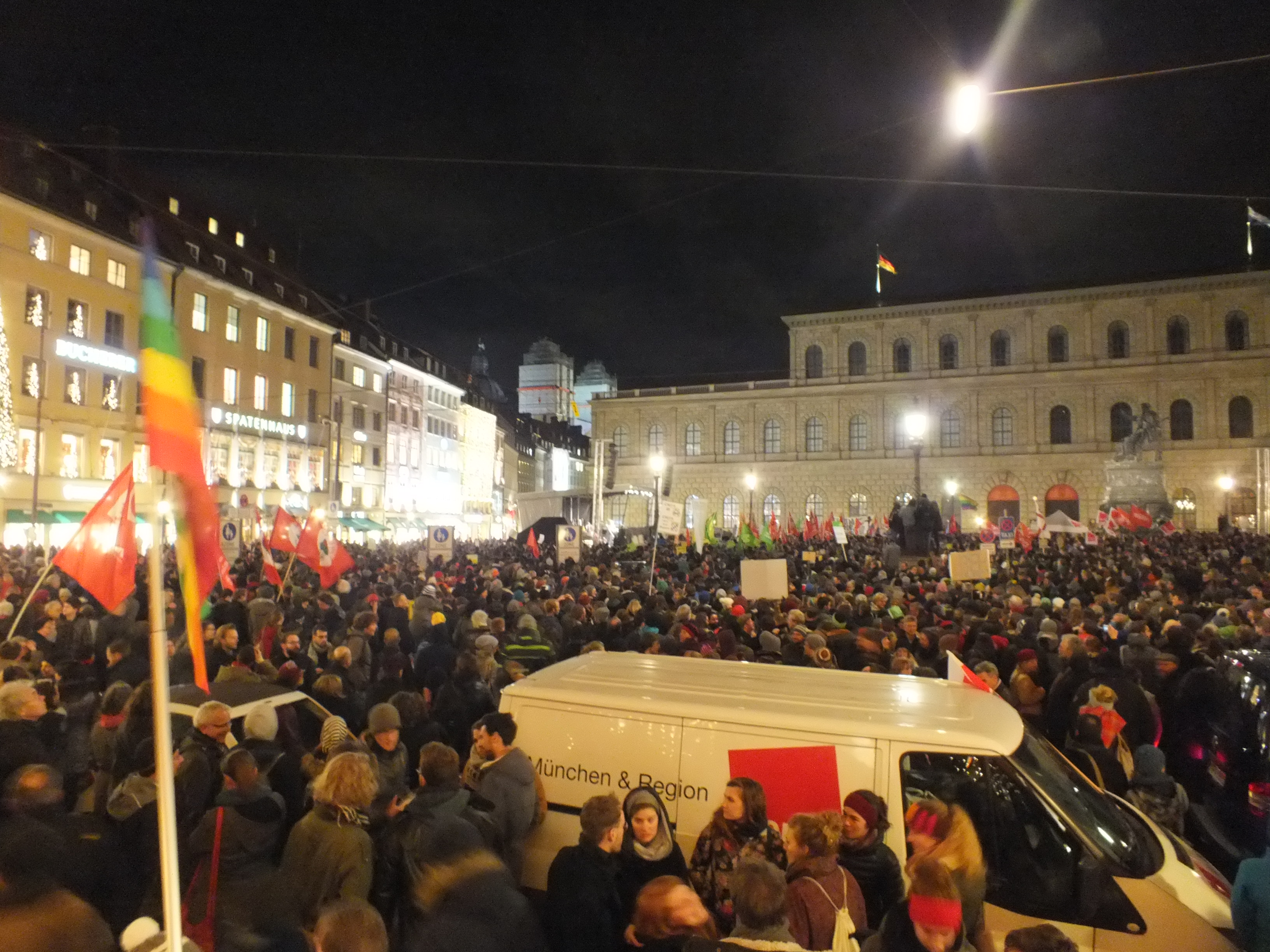 Munich, Max-Joseph-Platz: on December 22 , 2014 about 12,000 people or possibly many more demonstrate against PEGIDA and bid refugees welcome.[1]